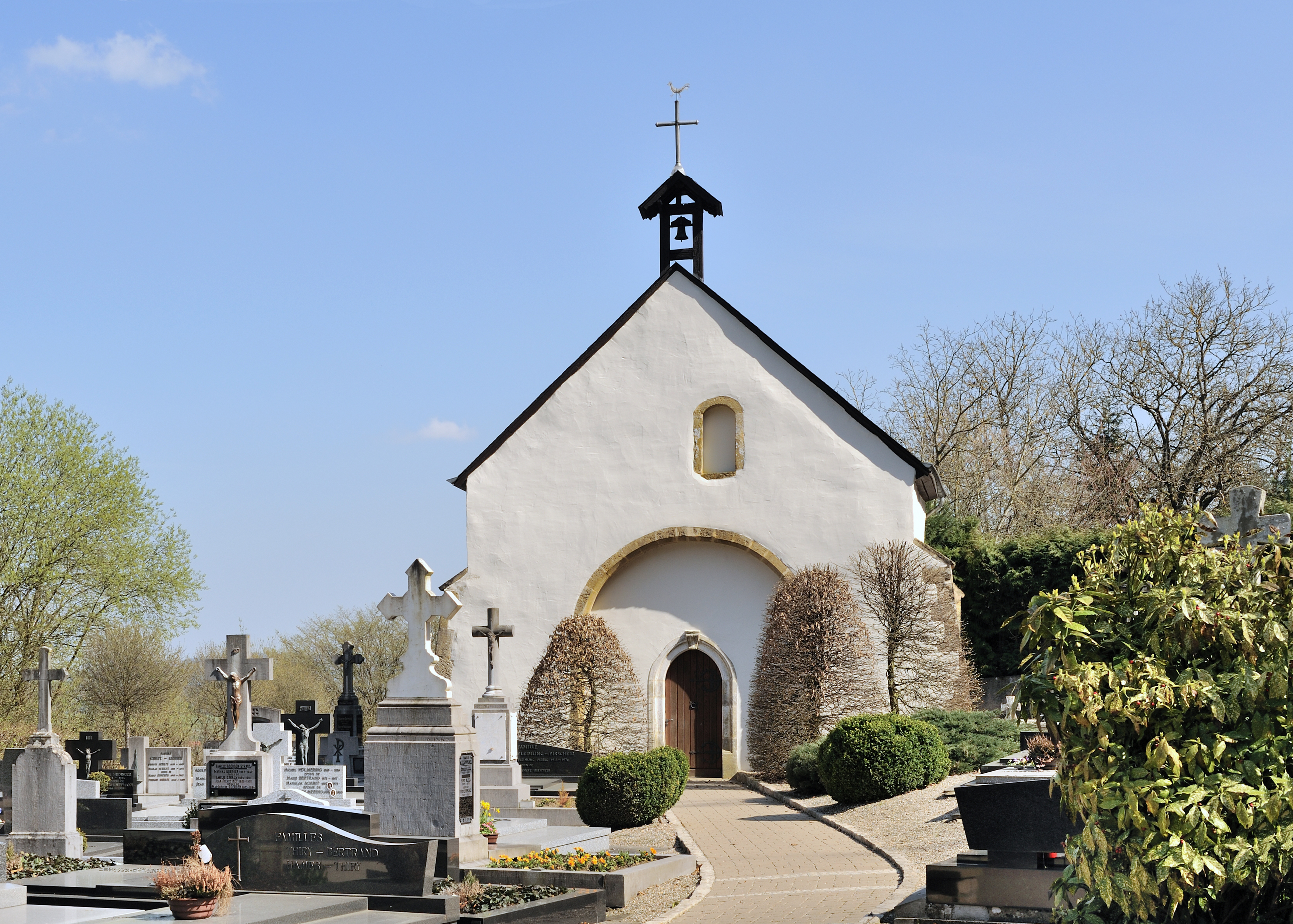 Luxembourg, Hostert/Niederanven: cemetery chapel, listed as National Monument since 27 December 1976.